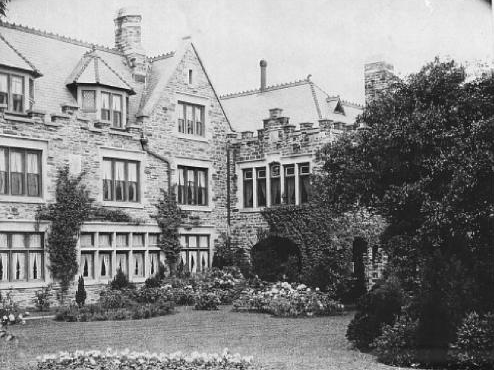 The Gables Mansion as it appears in a photograph dated 1896. It was custom-built in 1889 for Henry P. Dixon, a Pennsylvania Railroad executive, and his wife Ida E. Dixon. Author Unknown Source A snip from the book "Images of America: Nether Providence" by Michele S. Davidson.